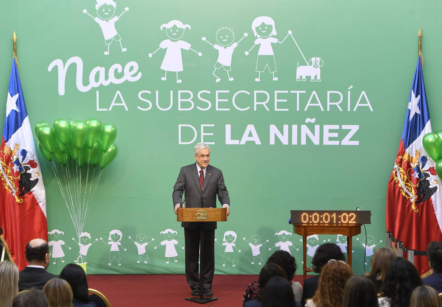 President Sebastián Piñera Echenique announcing the decree with the Force of Law for the creation of the Secretariat for Children on April 12, 2018